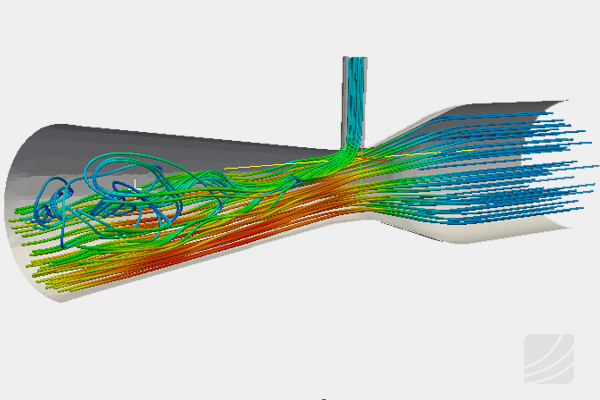 This image shows the simulation of incompressible flow through a venturi injector performed with the SimScale cloud-based CAE platform.